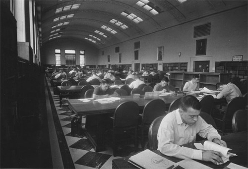 Reading room in Thomas Library at the University of Utah in Salt Lake City, Utah